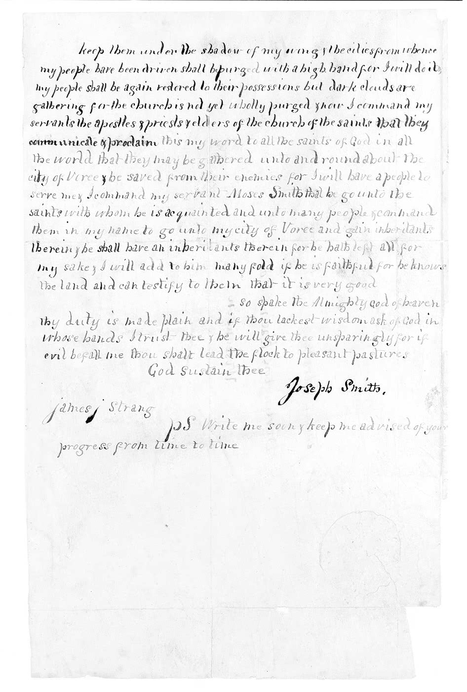 Image in public domain, not copyrighted, per Dale Broadhurst, owner of website on which they were found